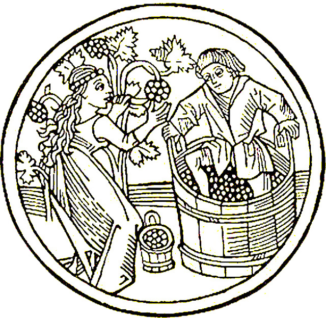 Harvest and pressing grapes to make must.Schäffler’s calendar. Ulm, 1498.